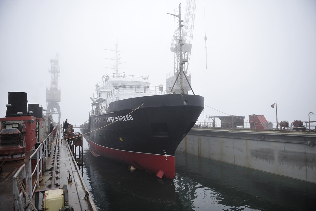 “Viktor Faleyev hydrographic survey vessel floated out”. The launching ceremony for the Viktor Faleyev hydrographic survey vessel of the Pacific Fleet in the Maly Ulyss Bay.